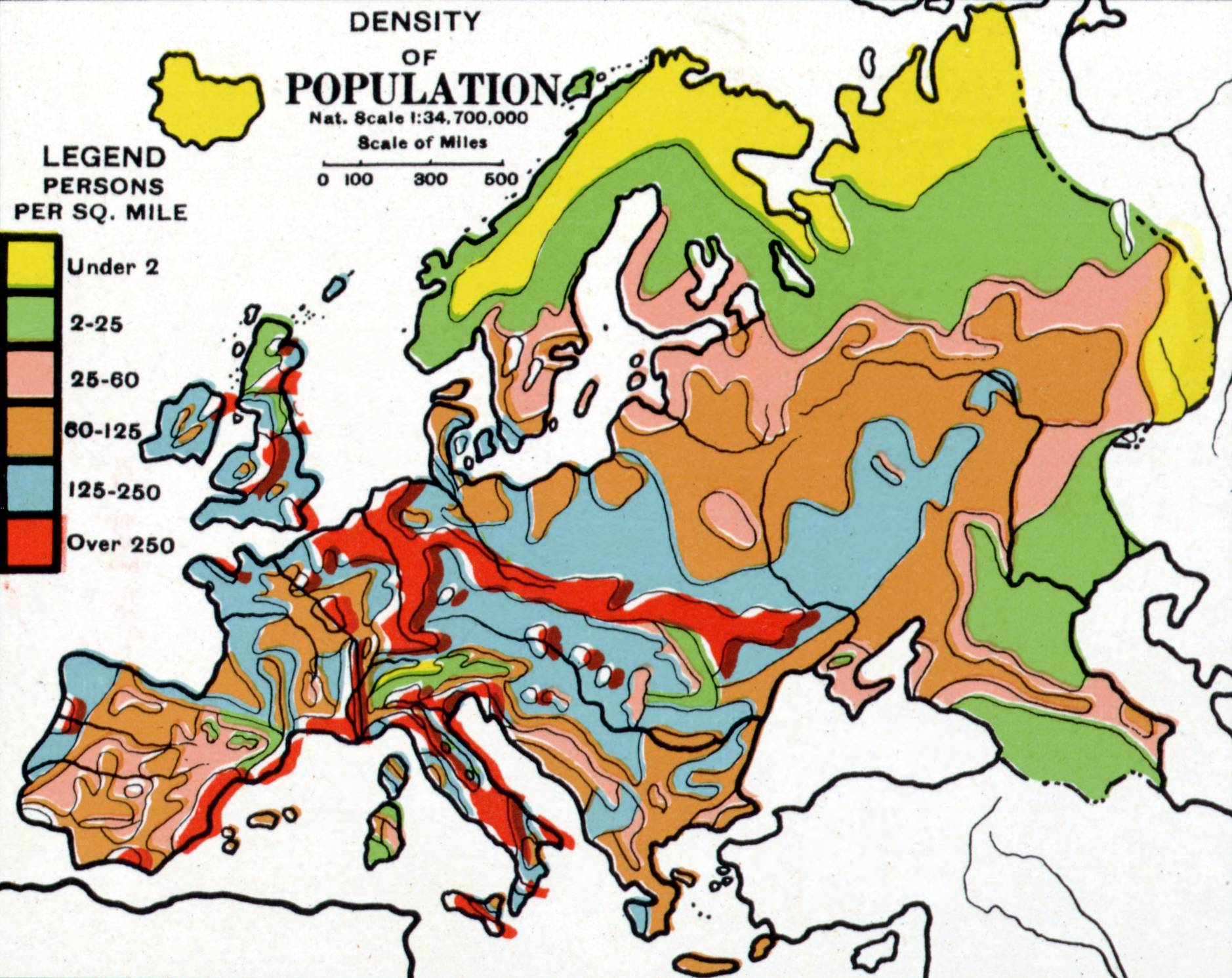 Fragment of Bacon's standard map of Europe, 1923. Published by Weber Costello Co.